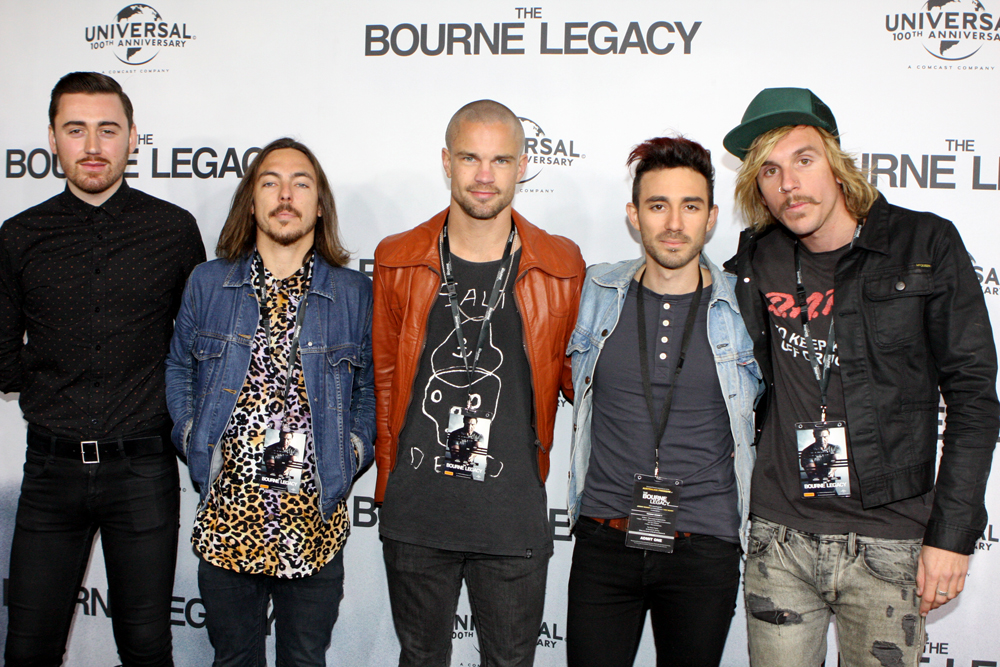 Amy Meredith at the Australian premiere of The Bourne Legacy at State Theatre in Sydney, Australia.